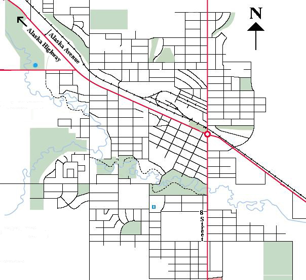 Uploaded by User:Maclean25 as Image:Dawson Creek BC Road Network.jpg stating